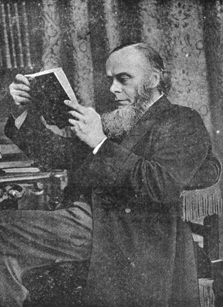 John E. B. Mayor, English classical scholar and vegetarianism activist.